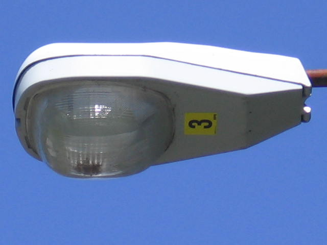 History of street lighting - - Cooper, OVG , Rare 35 watt version found in Canton, Massachusetts